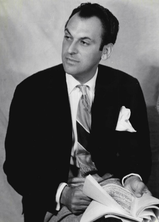 Photo of playwright Moss Hart.